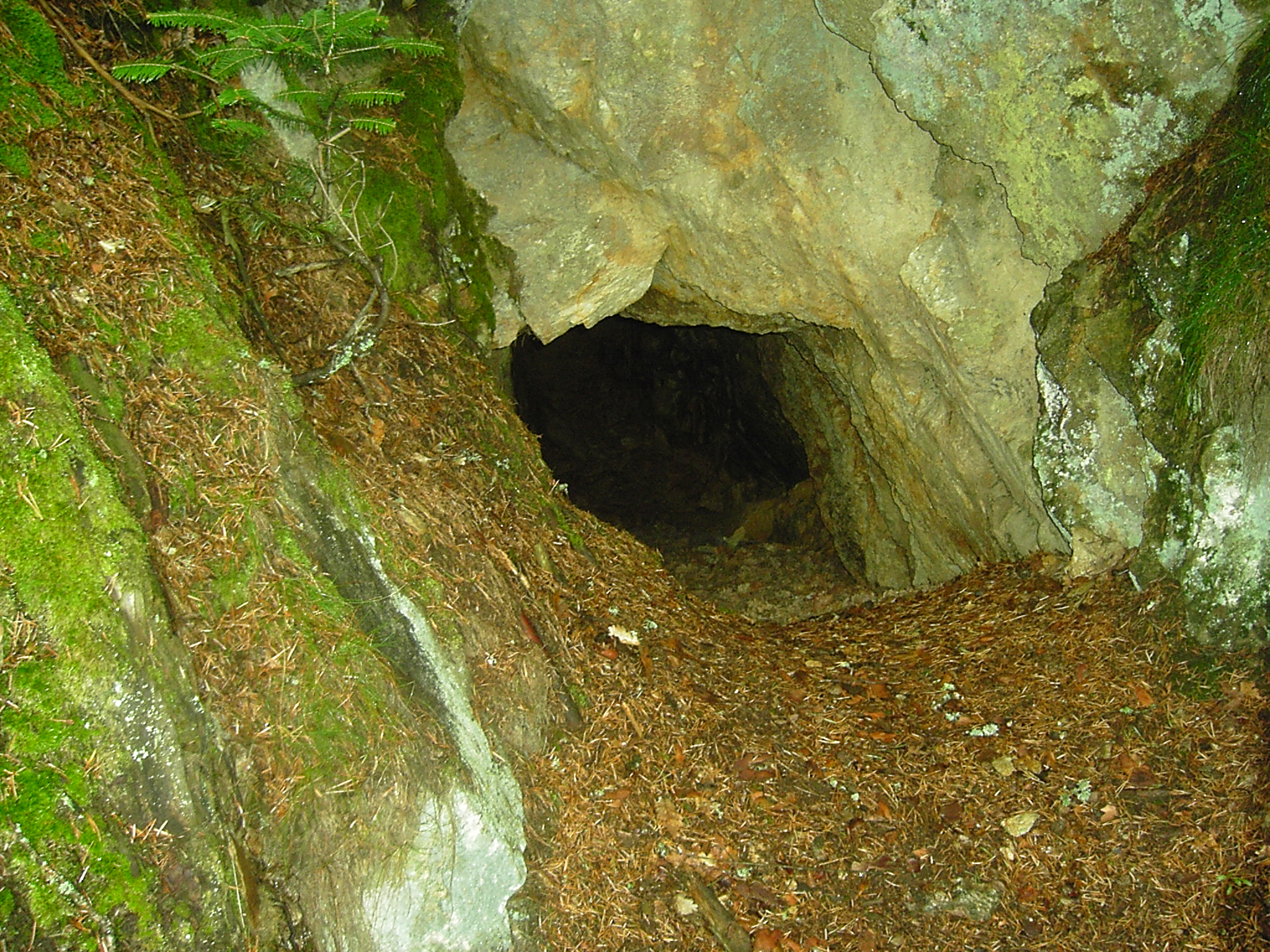 Enter to cooper ore mine (15. - 19. century), Ľubietová (Libethen), Slovakia